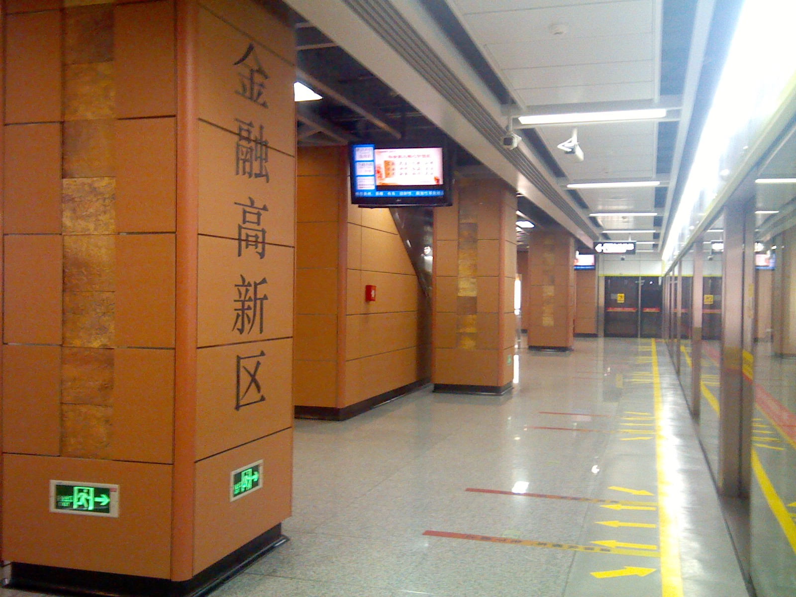 车站月台（魁奇路方向）